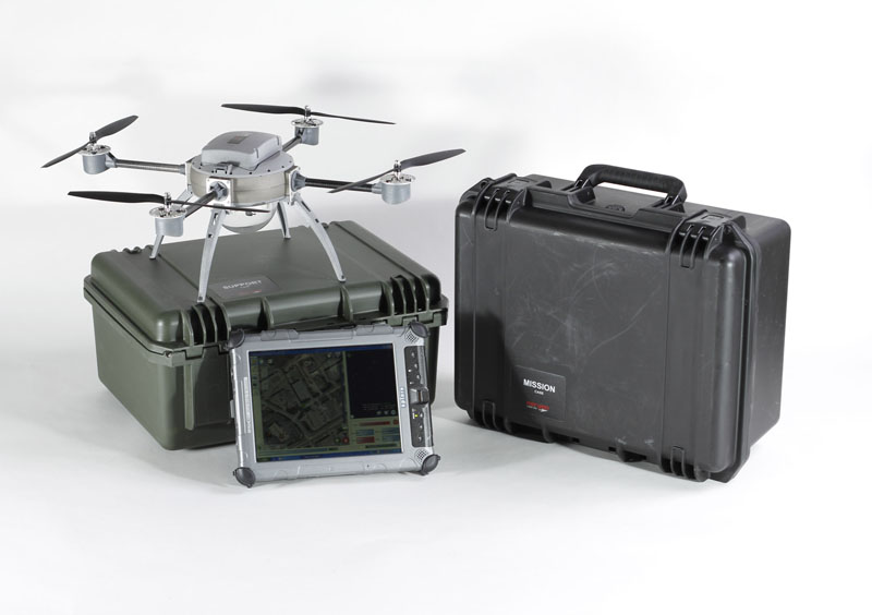 Aeryon Scout UAV system with its controller, missions and support cases